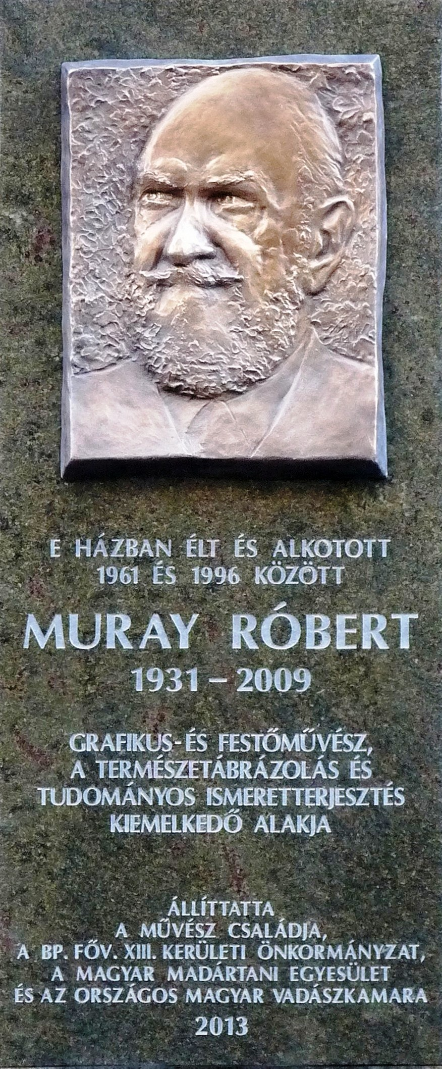 Commemorative plaque to Mr. Róbert Muray (1931-2009) Hungarian painter and graphic artist, affixed on the wall of his former home on November 26, 2013. Author of the bronz relief is Mr. Attila Meszlényi. (Budapest, District XIII, Visegrádi Street Nr 23)